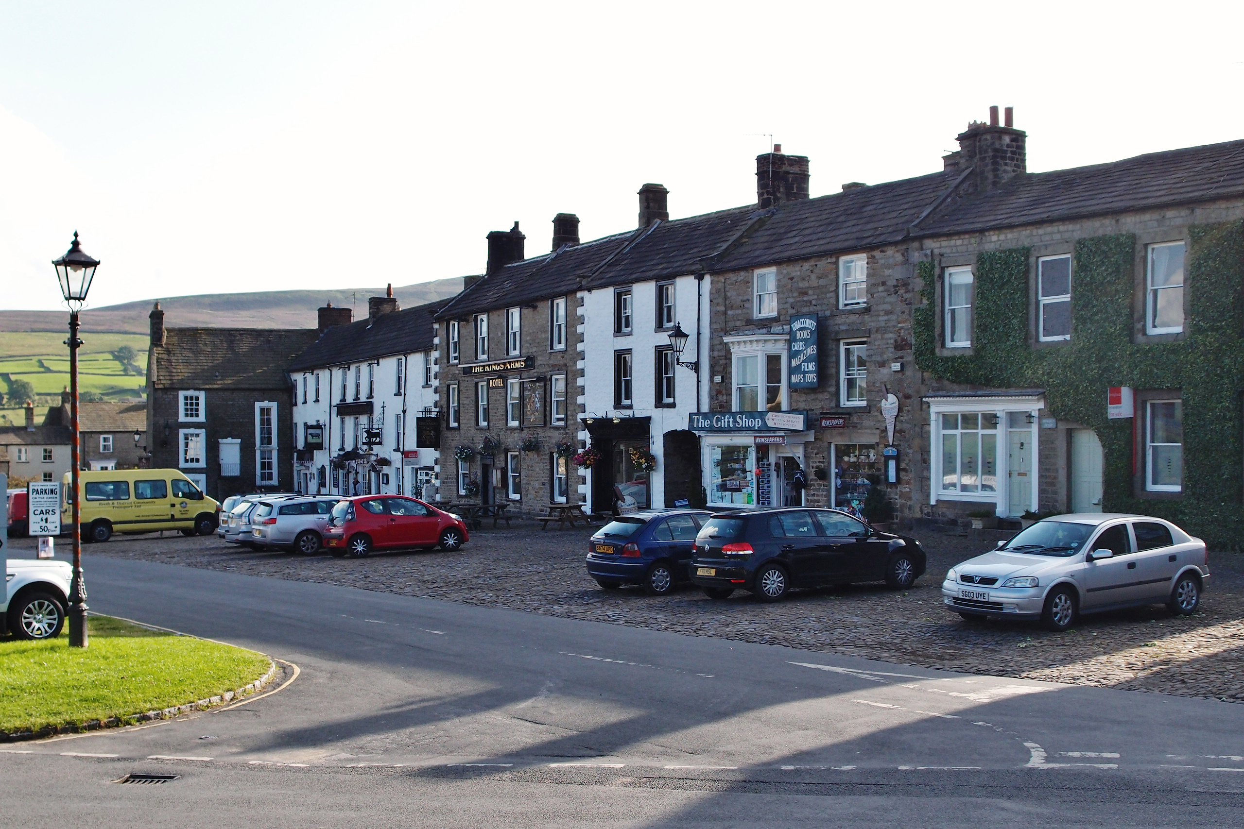 Centre of Reeth